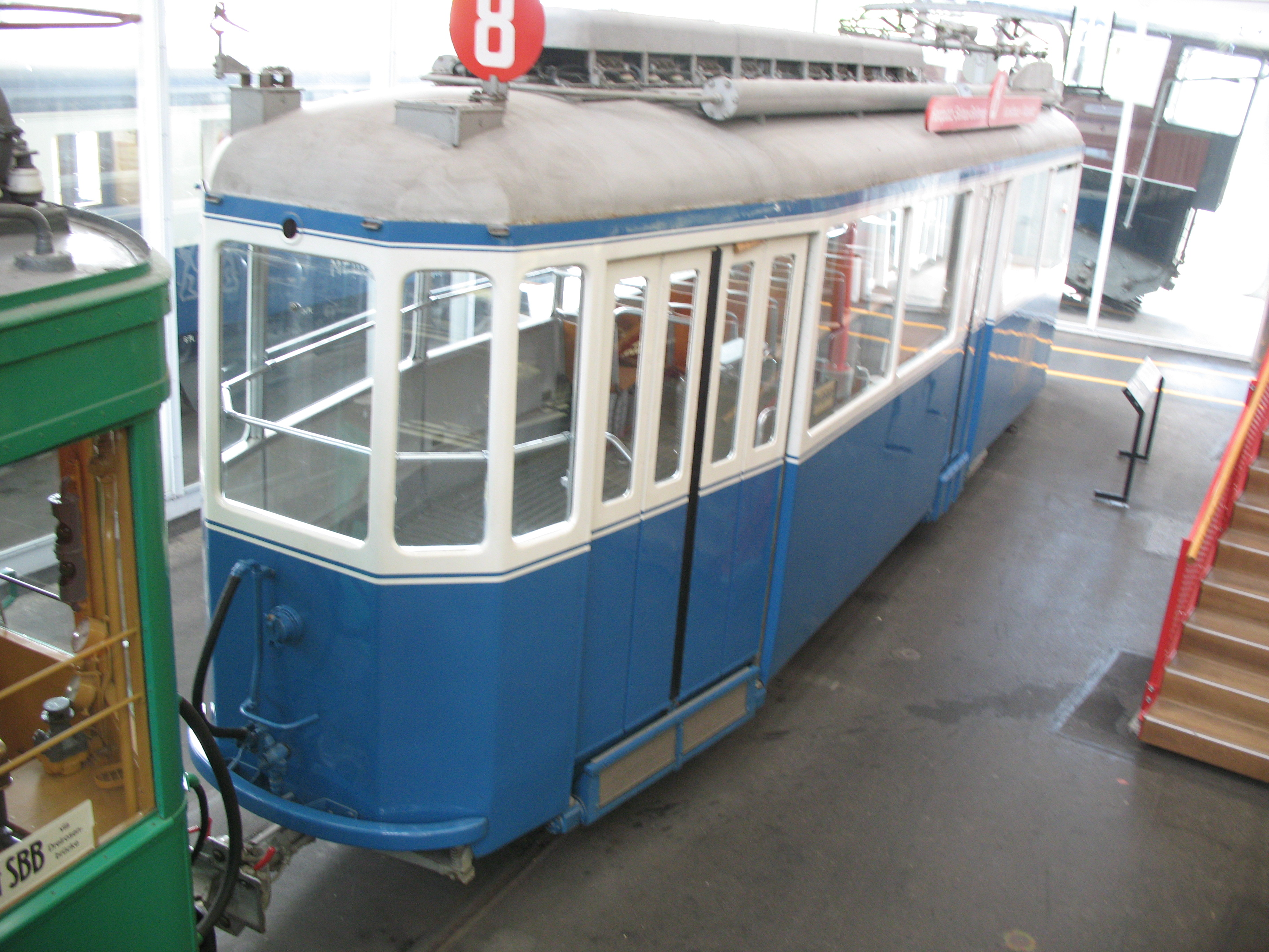 VBZ Railcar Be 2/3 in the Swiss Transport Museum, Luzern, Switzerland